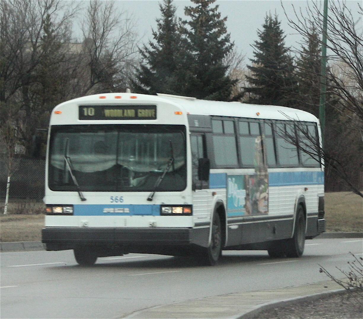 Regina Transit bus 566, an MCI Classic bus in pre-2008 livery.